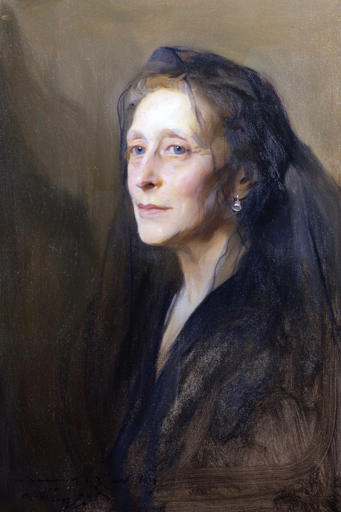 Portrait of Victoria Mountbatten, Marchioness of Milford Haven (1863-1950)